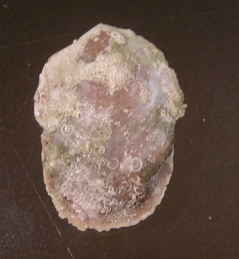 Crepidula immersa G. F. Angas, 1867, a slipper snail from the family Calyptraeidae